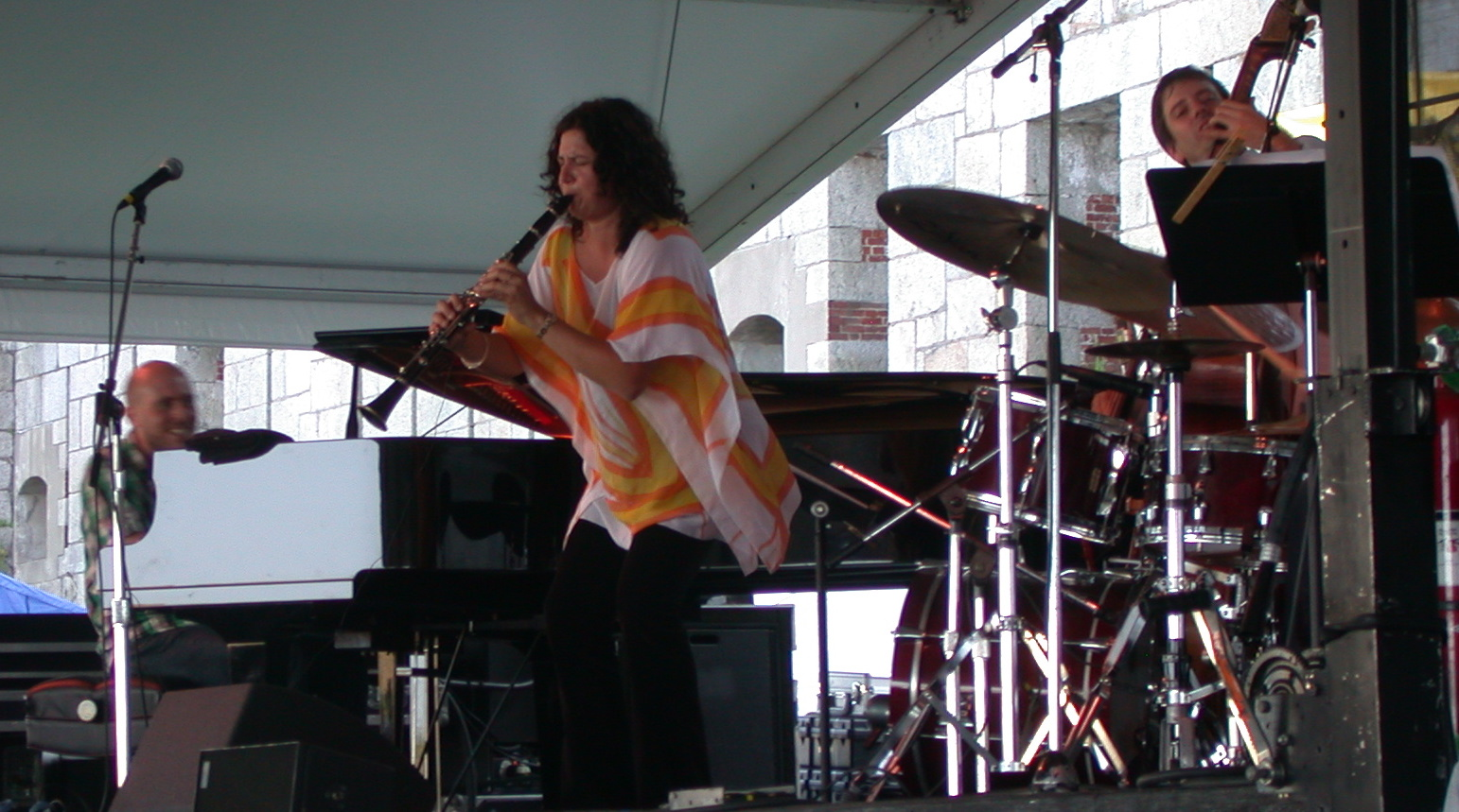 Anat Cohen and her band on stage at the Newport Jazz Festival, 2010